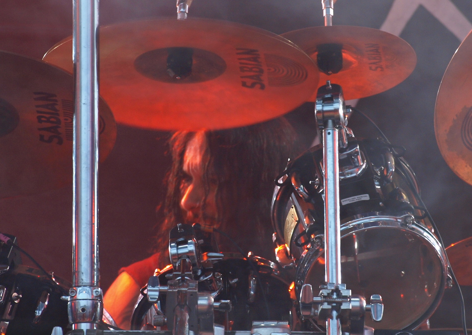 Jan Axel Blomberg from the Norwegian black metal band Mayhem live at Jalometalli 2008 in Oulu.